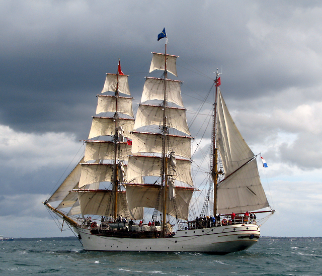 'Europa' in Belfast Lough - Tall Ships Belfast 2009 The barque 'Europa' in Belfast Lough as part of the 'Parade of Sail' event to mark the end of the Tall Ships event in Belfast. The 'Europa' was built in 1911 under the name of 'Senator Brockes' at the Stulcken shipyard in Hamburg, Germany. She originally saw service as the Elbe 3 lightship on the river Elbe, and later worked as a stand-by vessel. In 1986 the ship was brought to the Netherlands and completely rebuilt and rigged as a three-masted barque over an 8 year period.